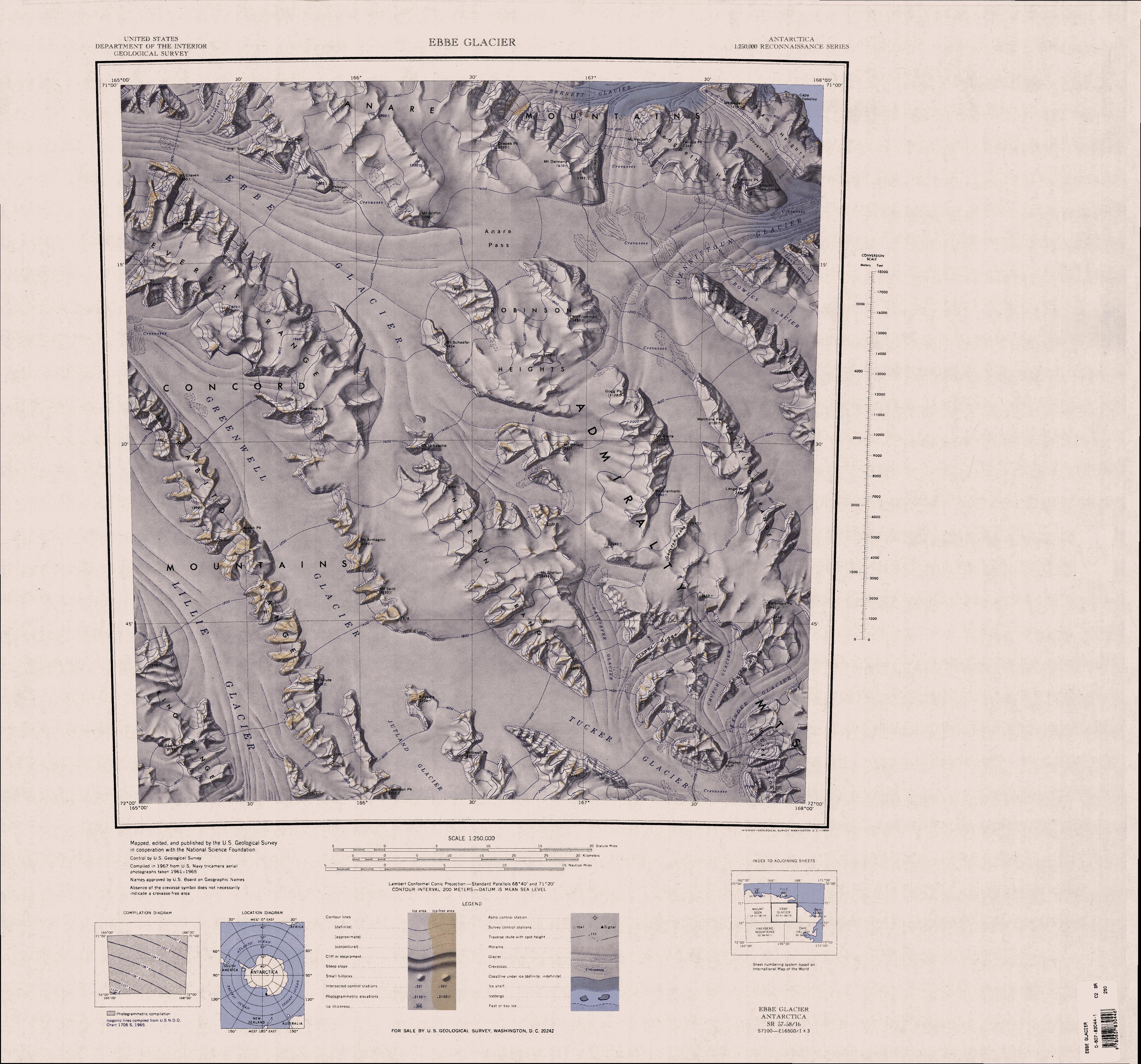 1:250,000-scale topographic reconnaissance map of the Ebbe Glacier area in the Admiralty Range from 165°-168°E to 71°-72°S in Antarctica, including Greenwell, Lillie and Tucker Glacier. Mapped, edited and published by the U.S. Geological Survey in cooperation with the National Science Foundation.